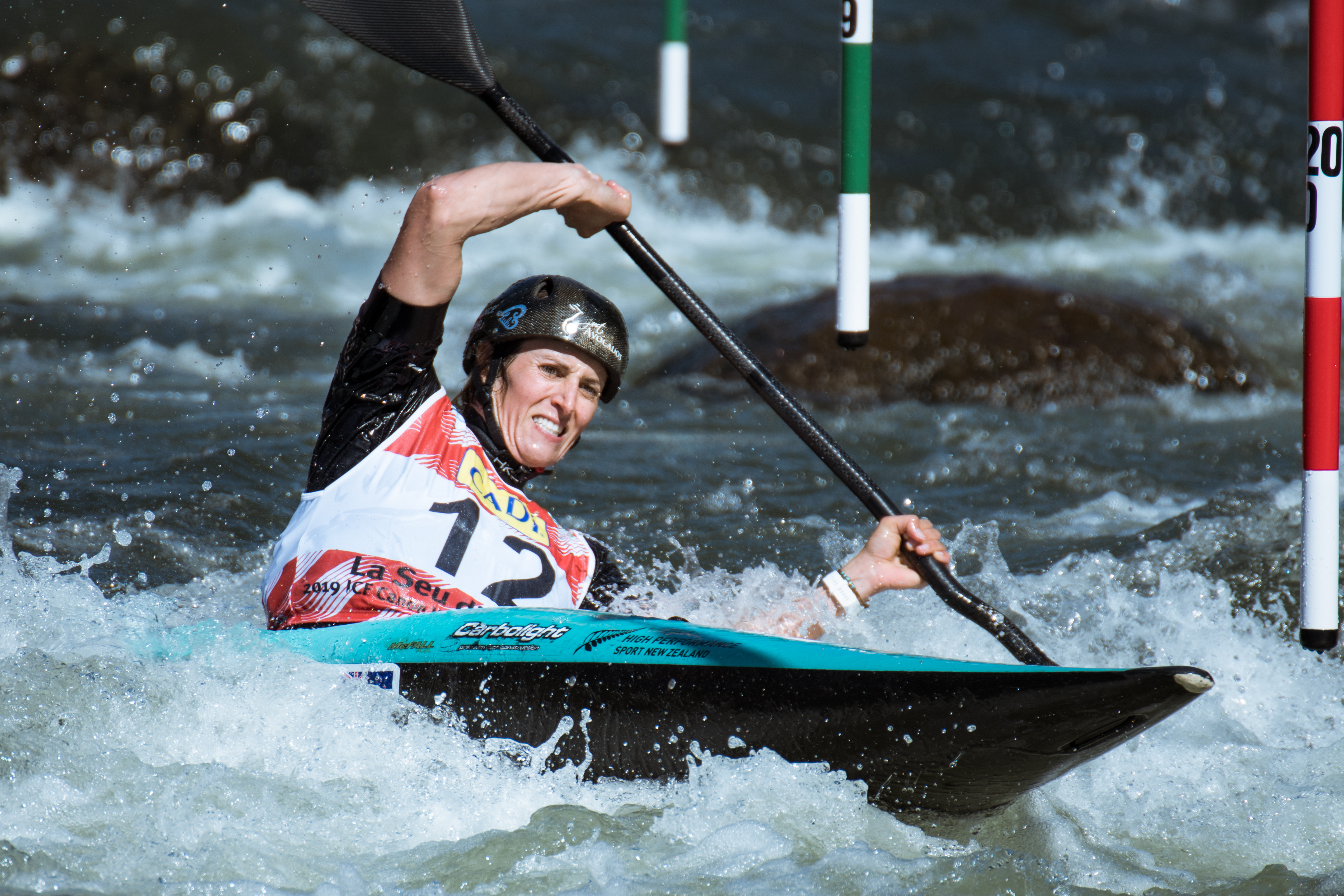 Luuka Jones during the 2019 Canoe Slalom World Championships in La Seu d'Urgell, Spain.